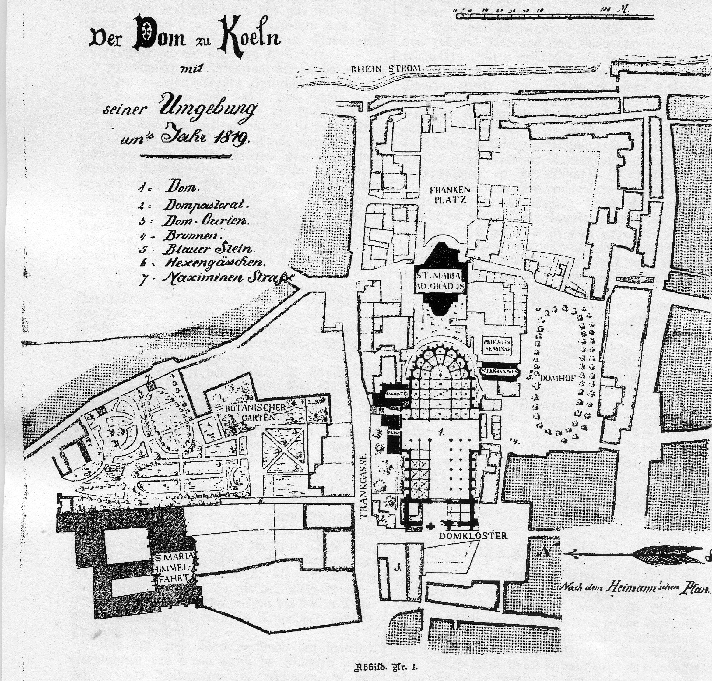 Cologne, map of cathedral area 1819